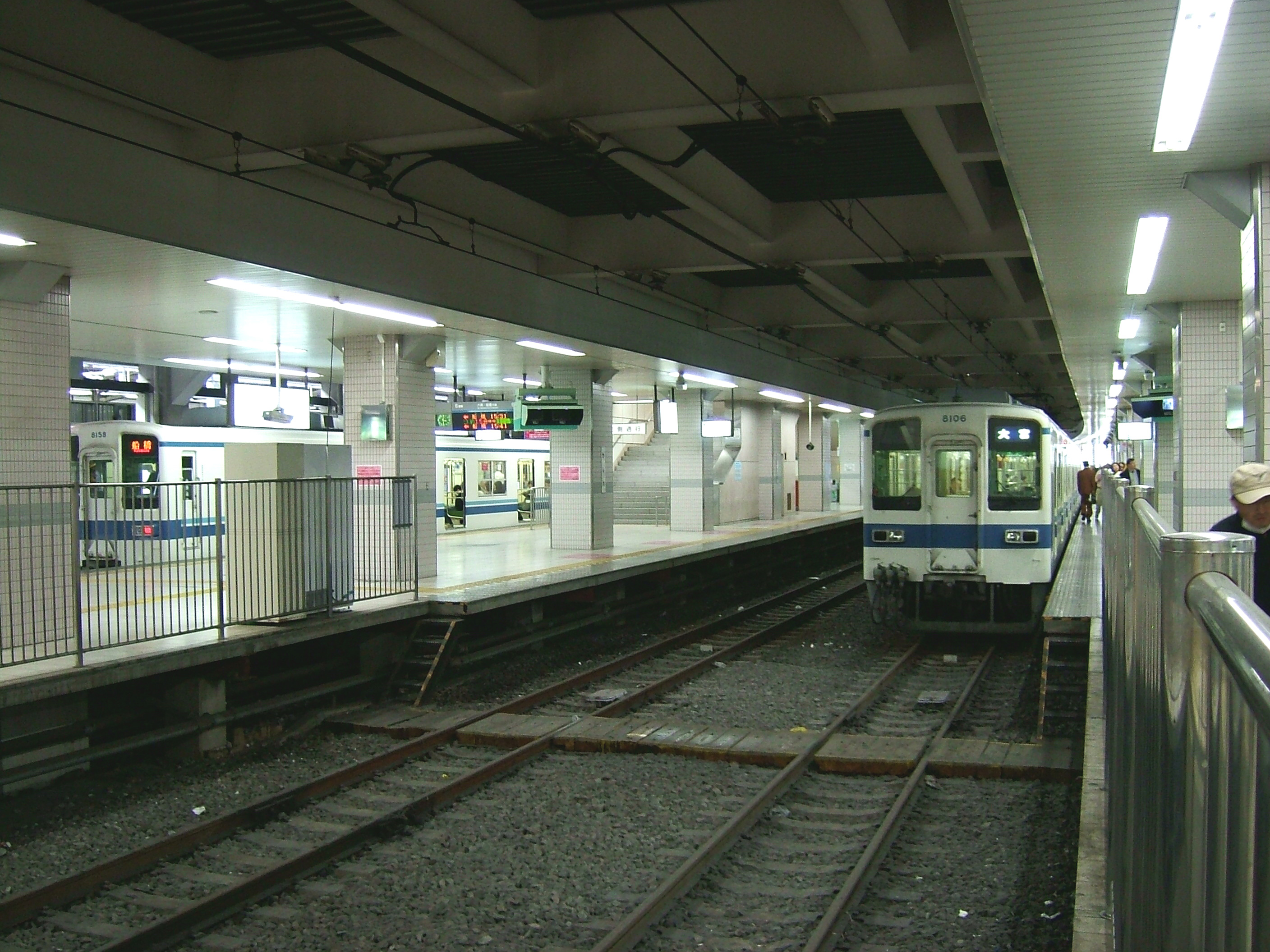 Kashiwa Station platform (Tōbu Railway Noda Line)